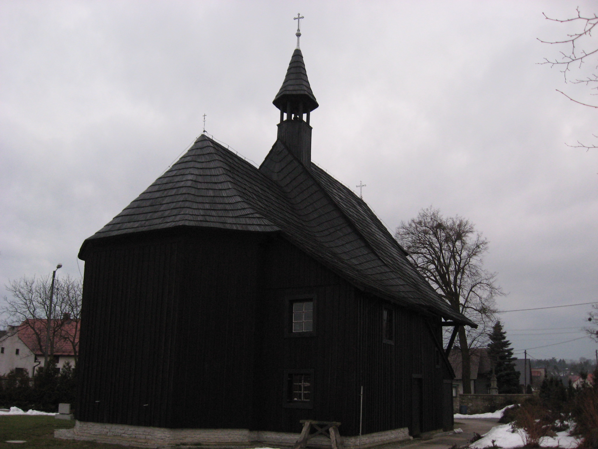 Olszowa - wooden church